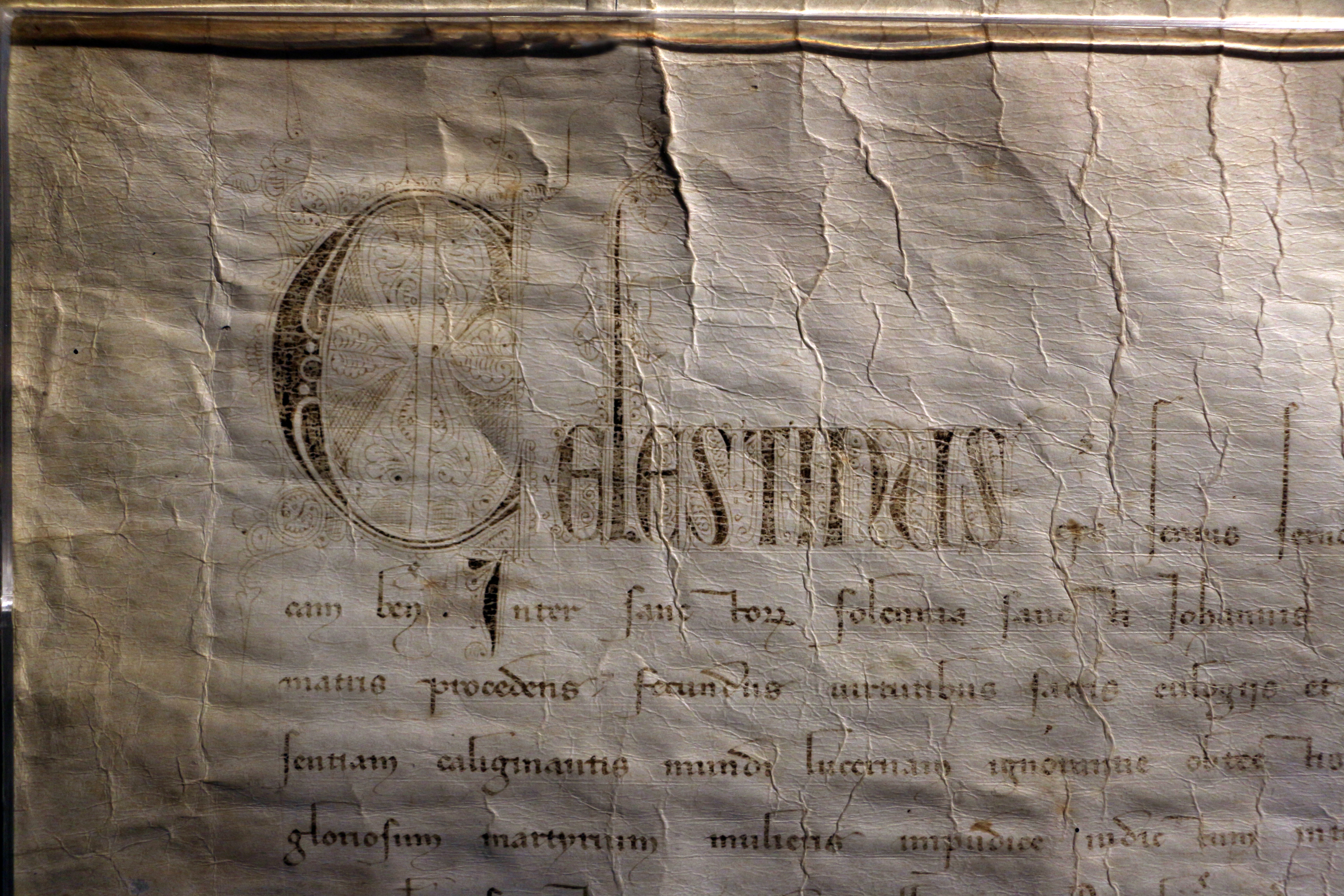 Il Tesoro d'Italia (exhibition at Expo 2015)